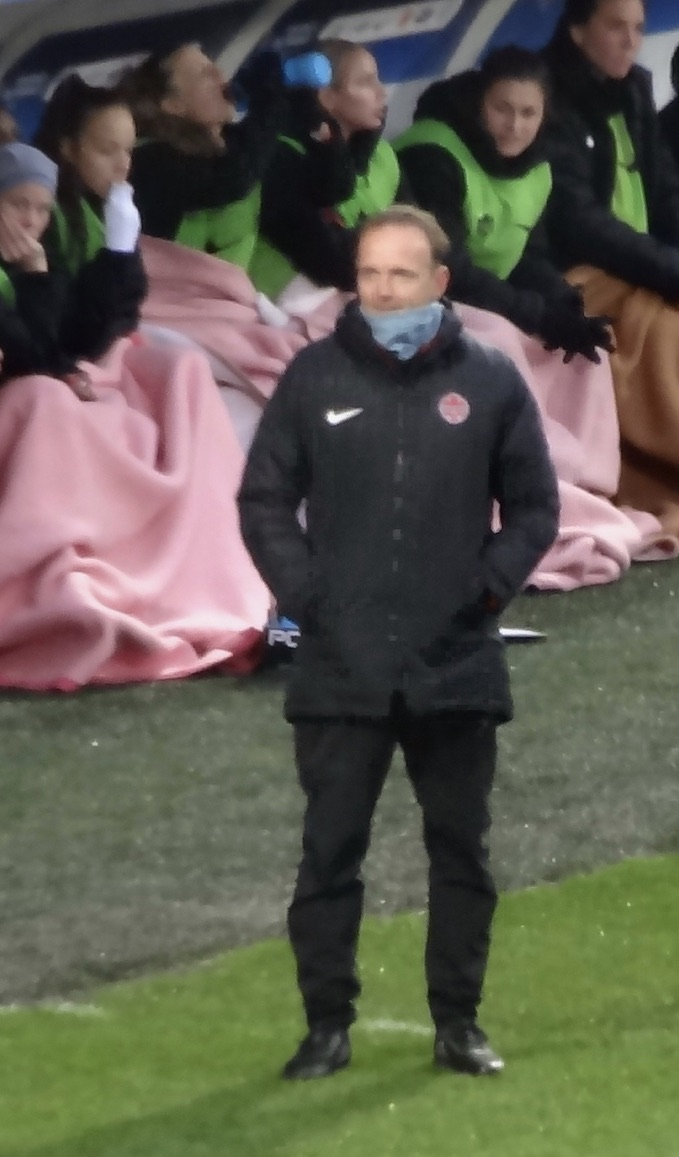 Kenneth Heiner-Møller